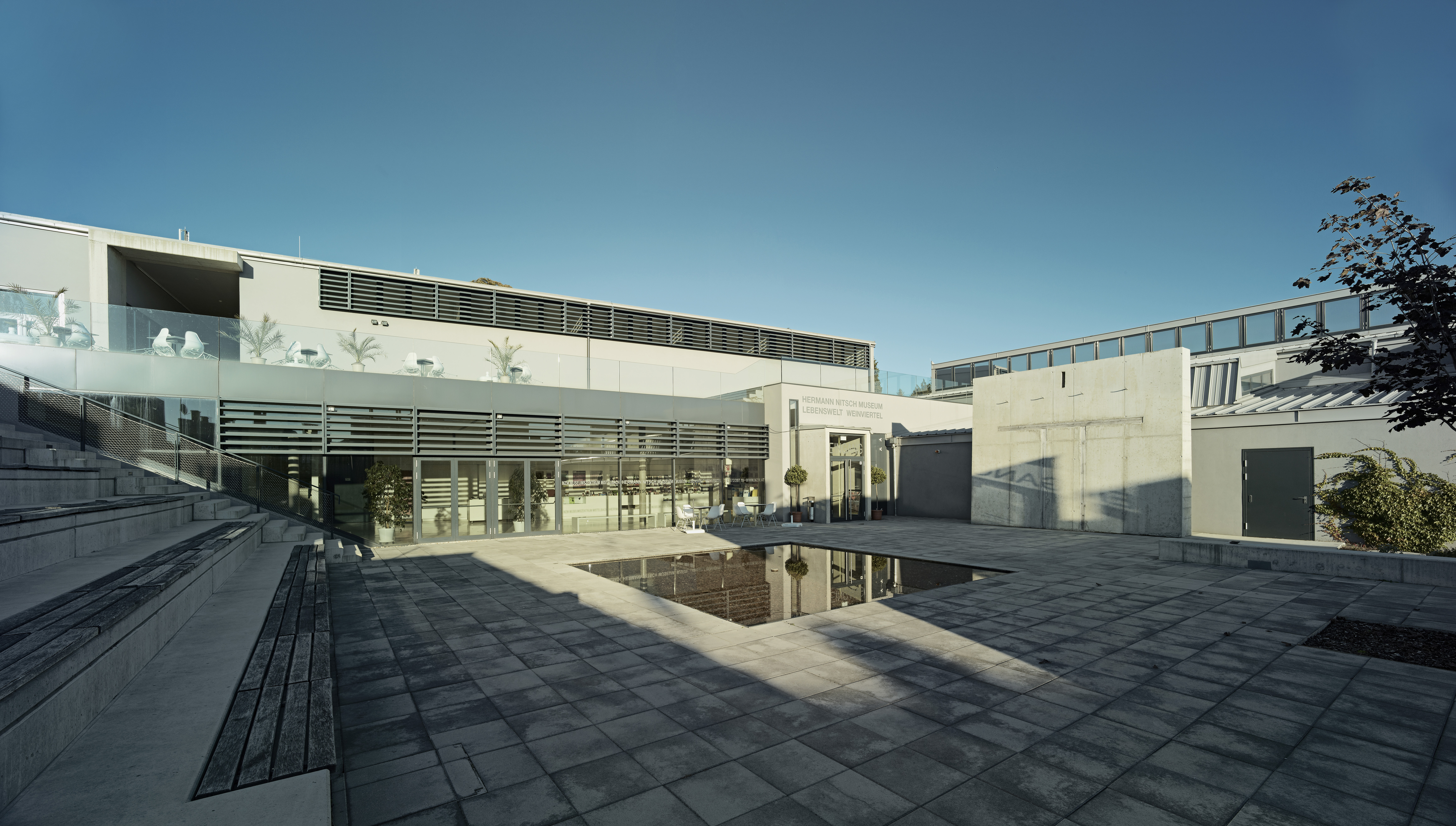 Museumszentrum Mistelbach architecture